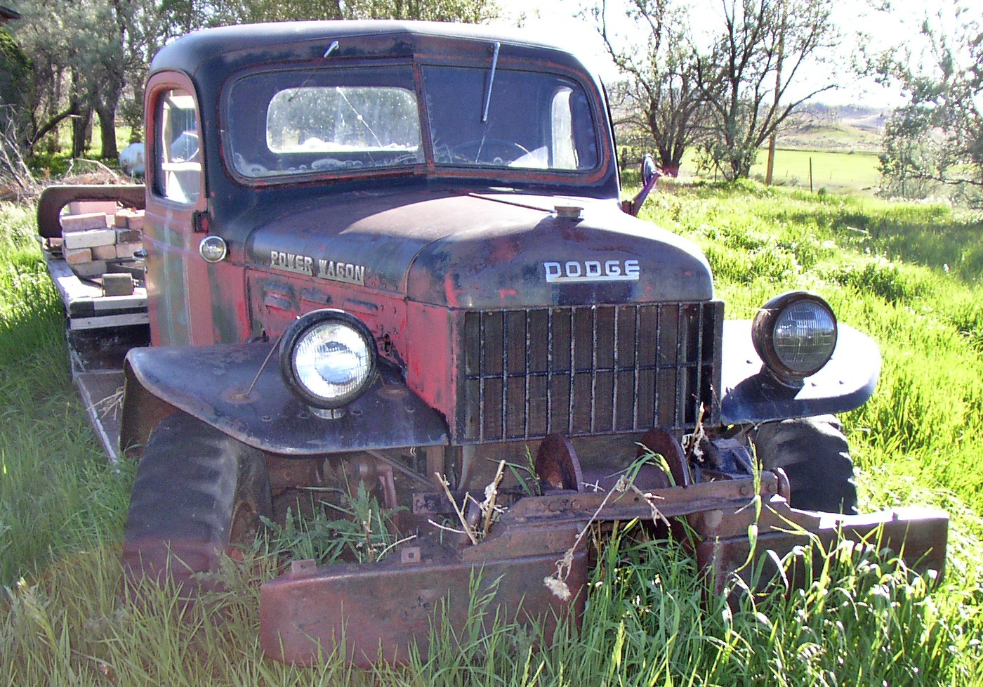 Dodge Power Wagon in Wyoming